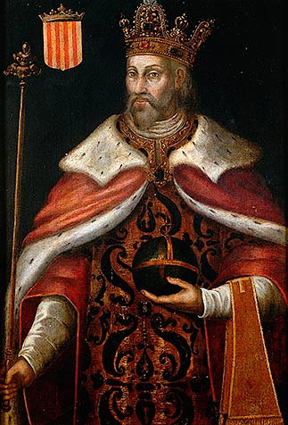 Retrospective portrait of Peter III of Aragon (1239-1285) or Alfonso IV of Aragon (1299-1336)